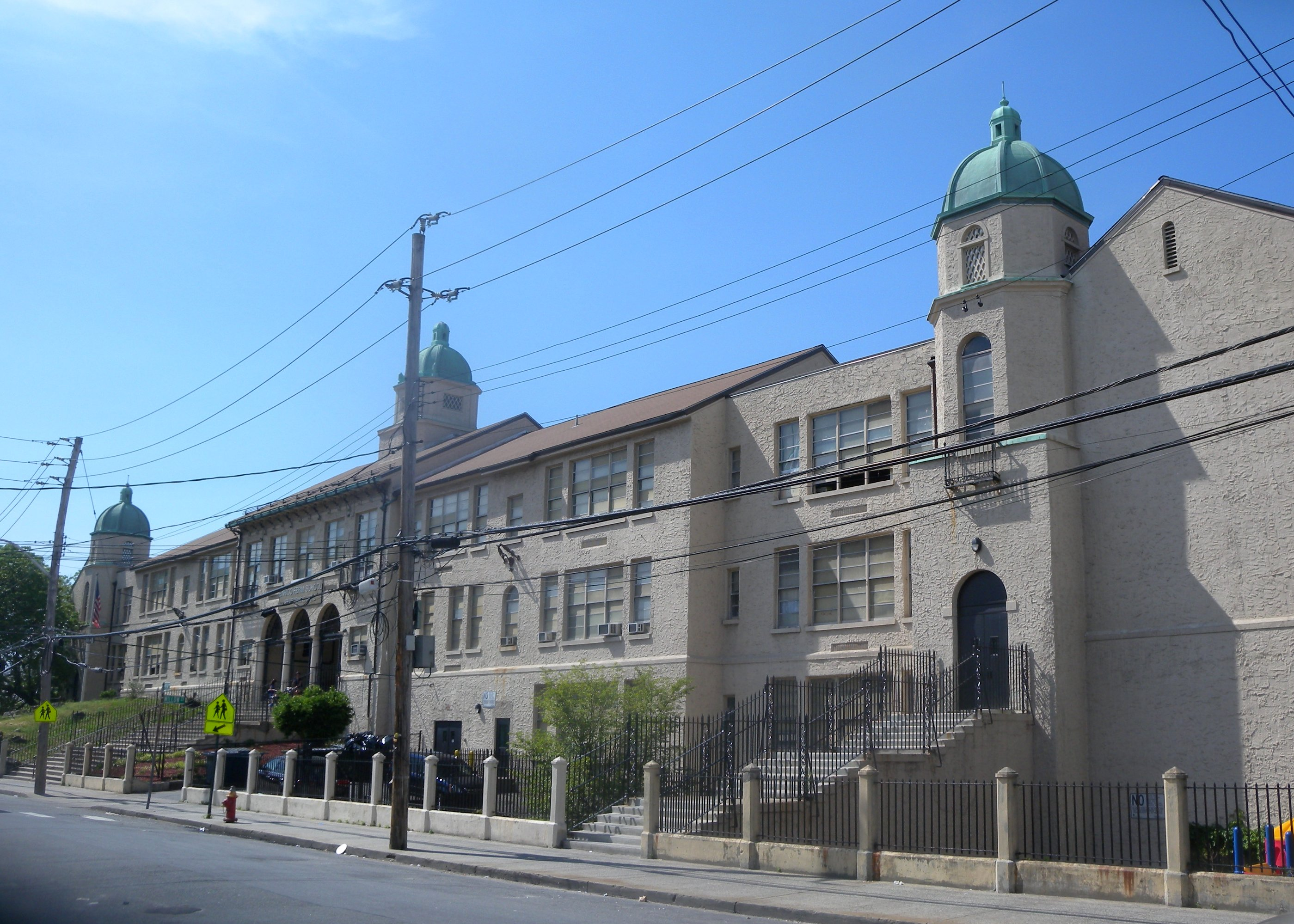 Looking west across Poplar Street at Fermi School of the Performing Arts on a sunny afternoon.